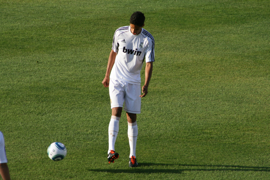 Raphaël Varane on Real Madrid training, in Los Angeles, California.